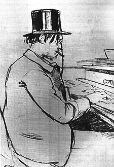 "Satie playing the harmonium". Charcoal drawing by Santiago Rusiñol, 1891